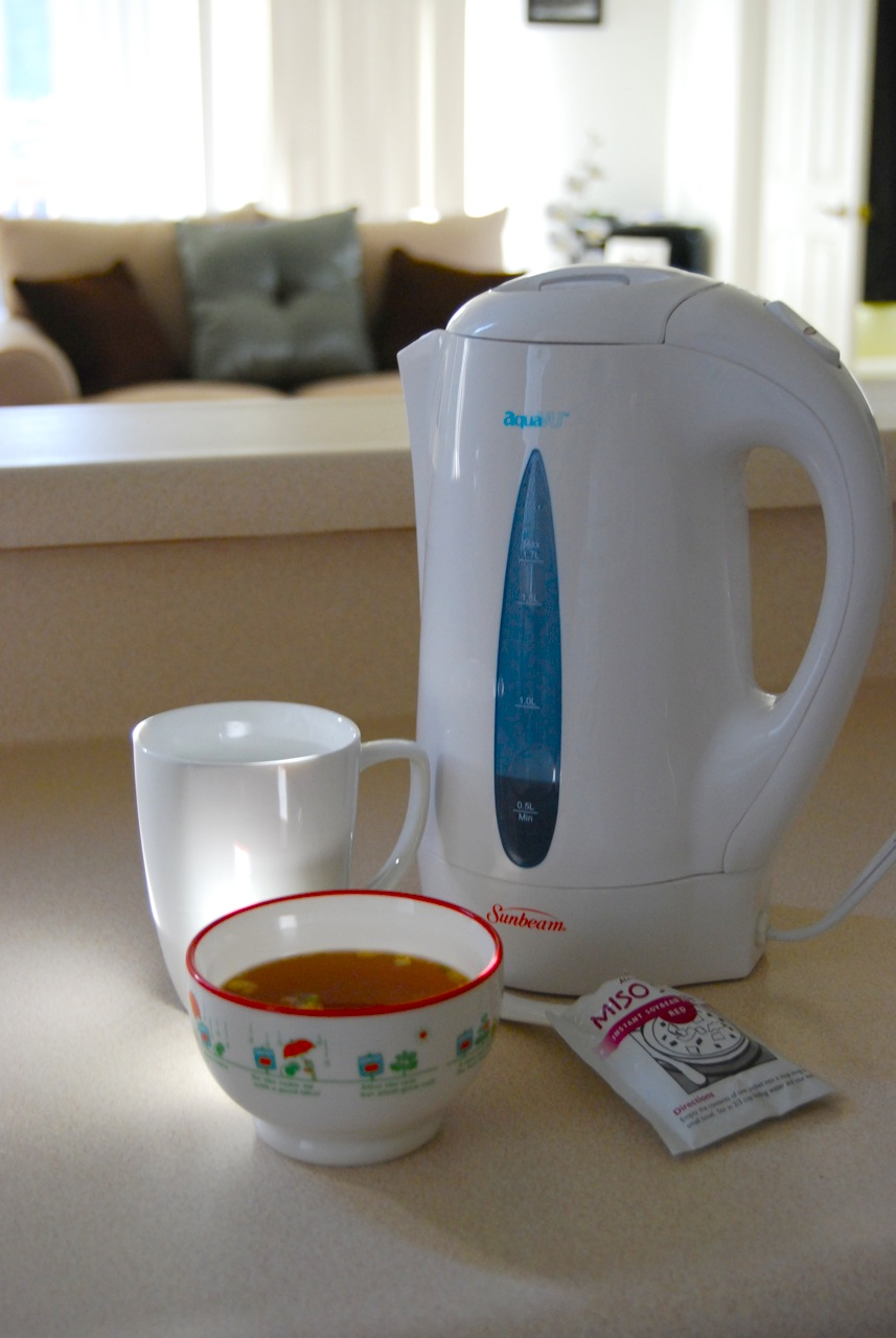 yerba mate & instant miso in the morning